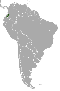 Scaly-footed Small-eared Shrew (Cryptotis squamipes) range